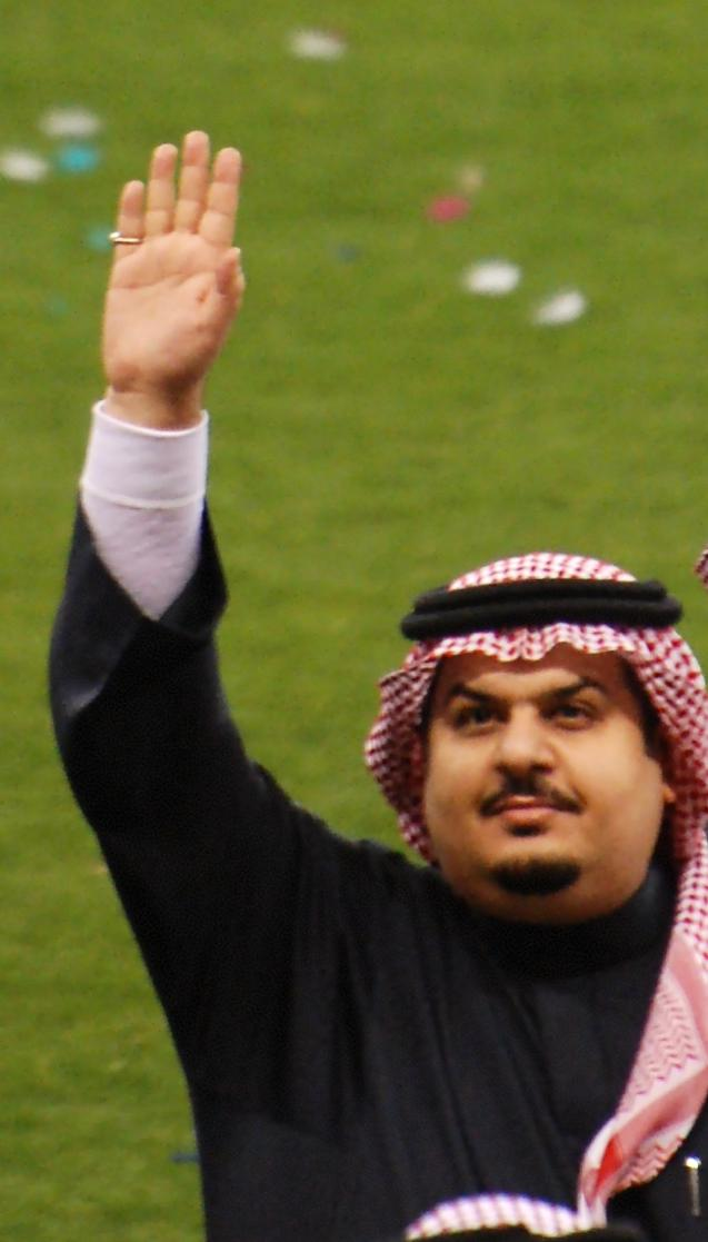 Abdulrahman bin Musa'ad president of Saudi Soccer club Al-Hilal.